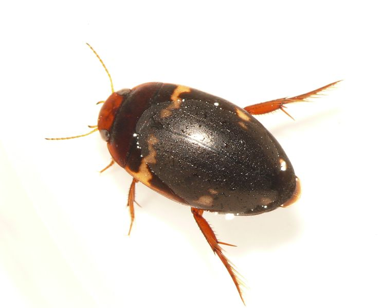 Agabus undulatus. Location: The Netherlands - Rhenen - Blauwe Kamer